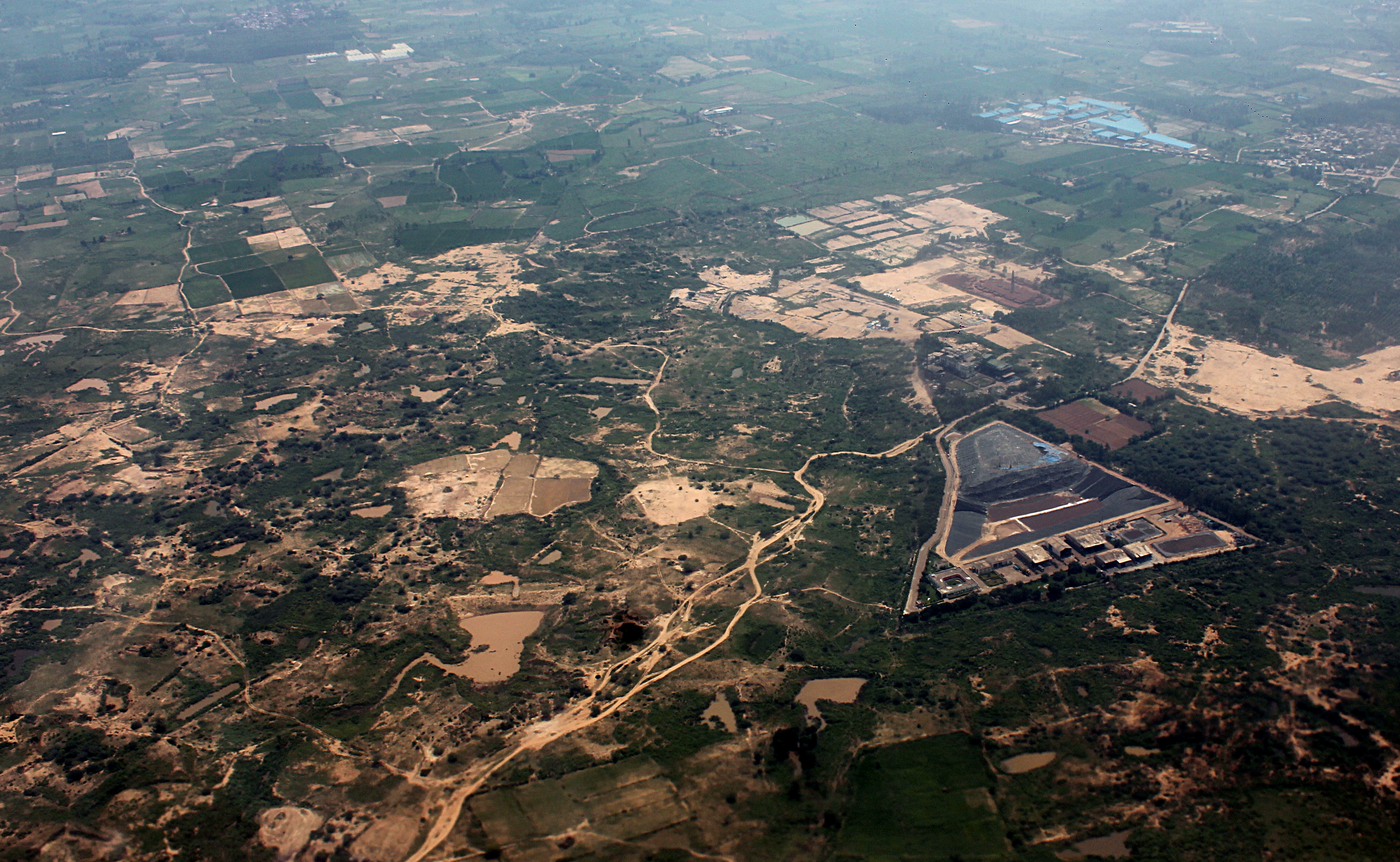 Chandigarh and surrounding aerial photo 04-2016